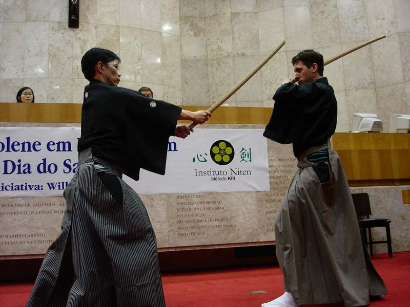 Technique of the Niten Ichi Ryu, Tachi Seiho (long sword set of technique), executed by Sensei Jorge Kishikawa